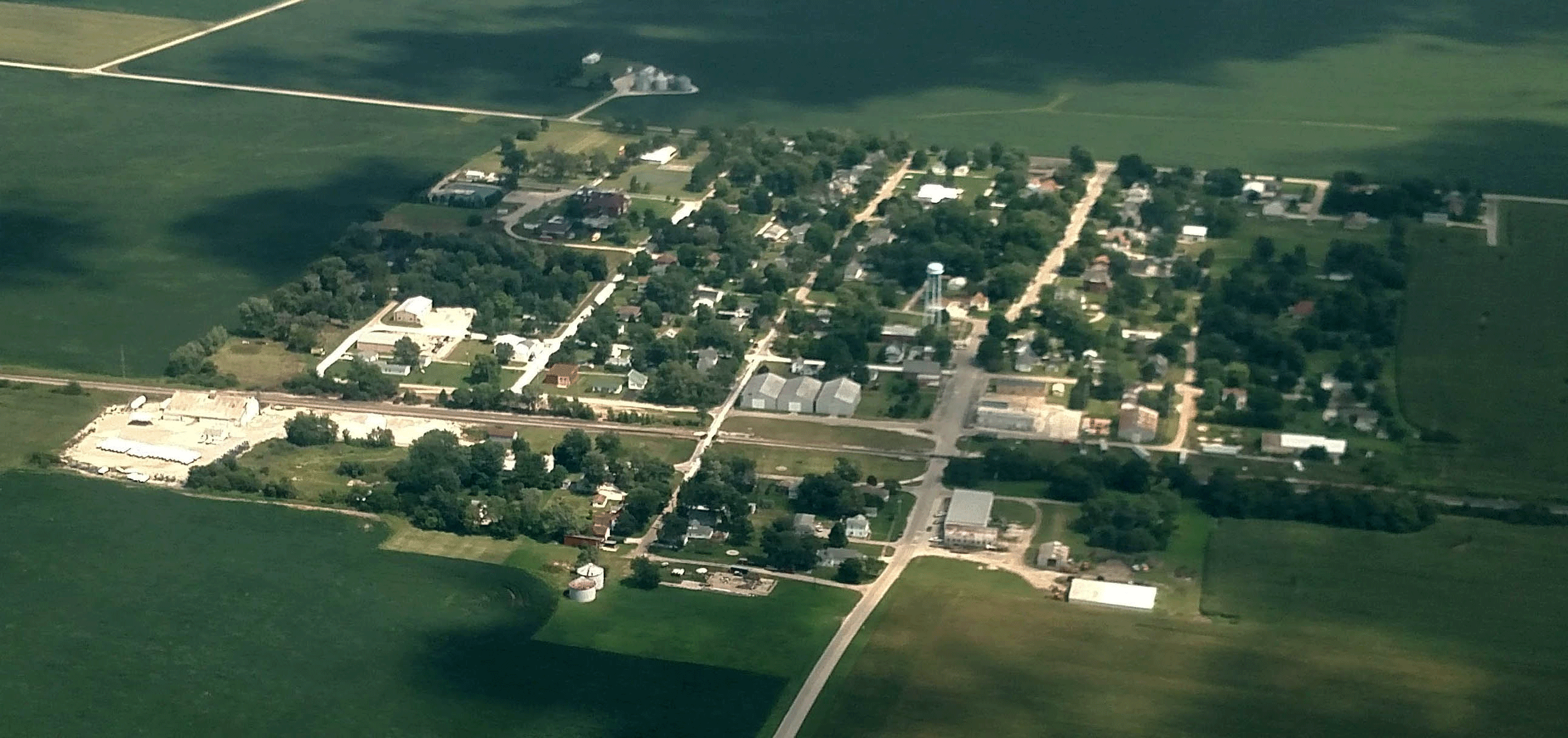 An aerial photograph of Wellington, Iroquois County, Illinois, United States, looking toward the east